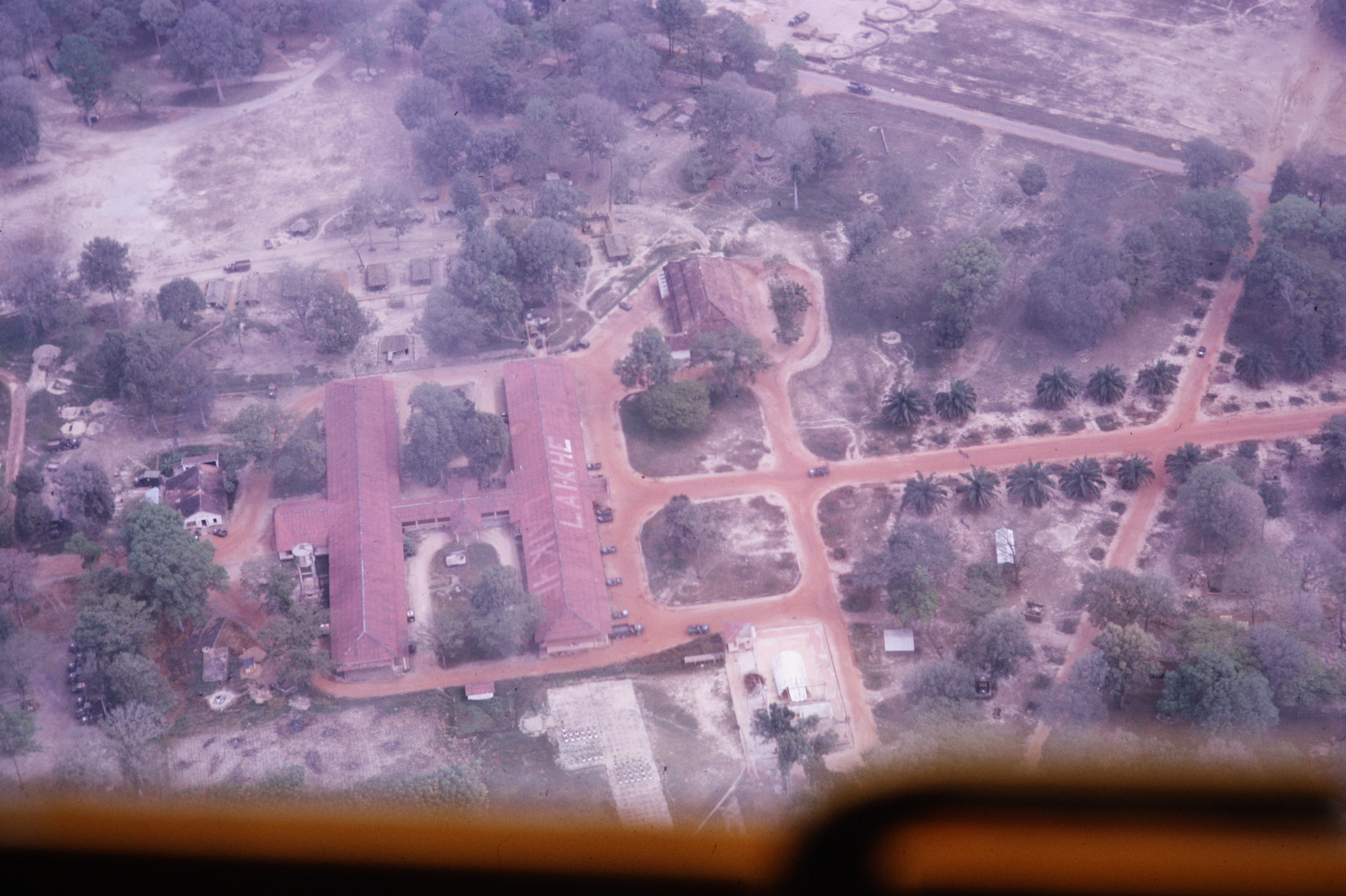 As a GI in Vietnam - I managed a trip to Khe Lai. This is the pic from the copter.